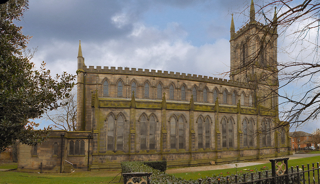 St George's parish church, Chorley, Lancashire, seen from the northeast